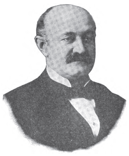 an Ohio politician named Jacob A. Beidler